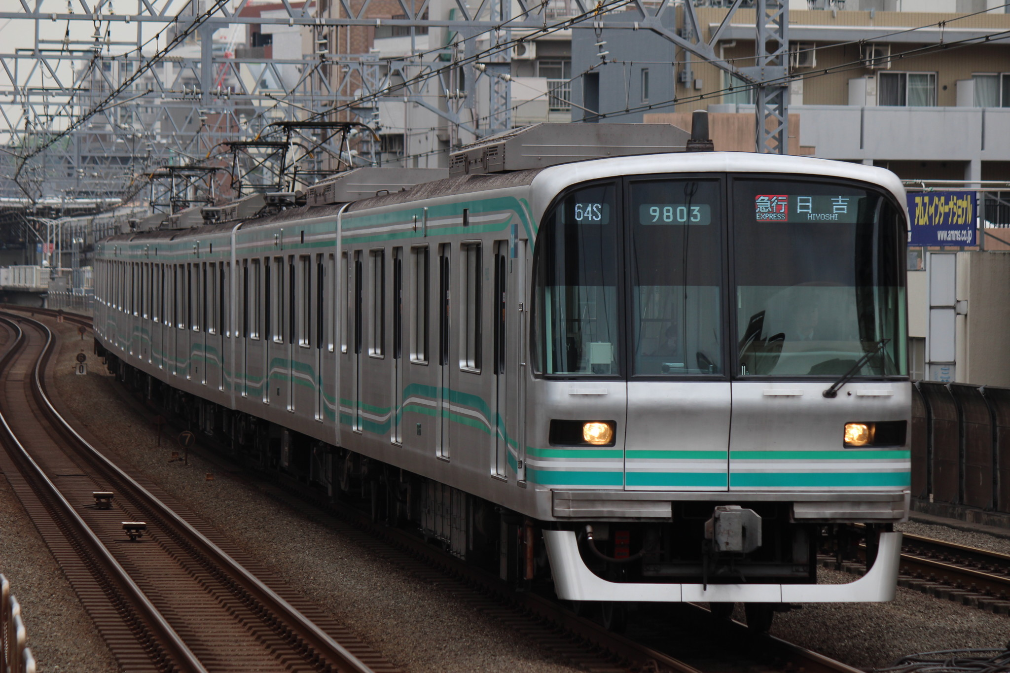 Refurbished Tokyo Metro 9000 series EMU set 9103 on a Namboku Line service